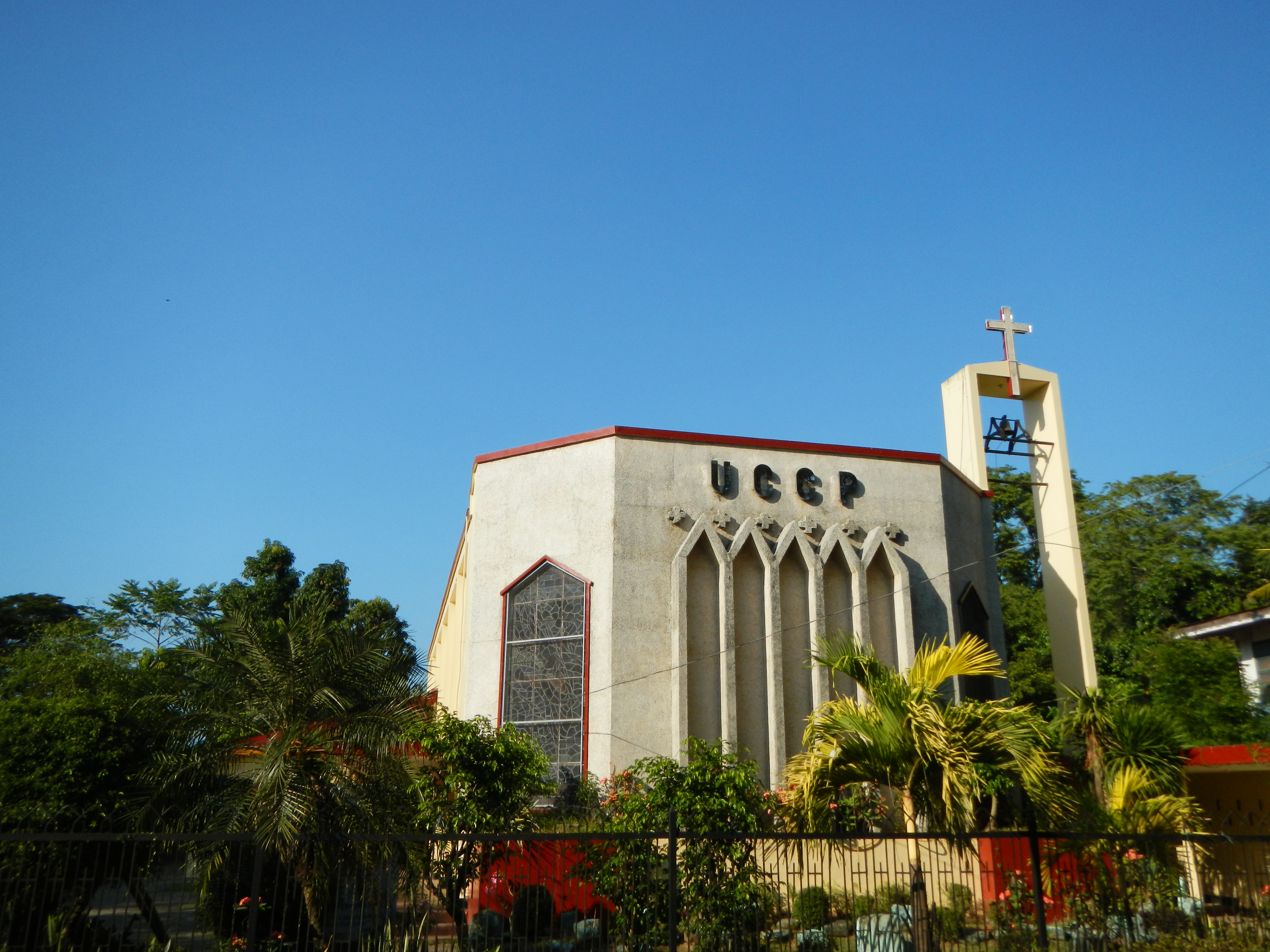 Caba, La Union[1]